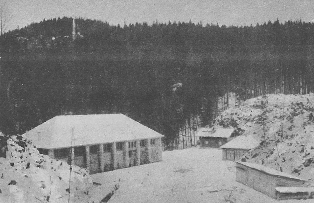 Ansicht der Stationsgebäude der Funkstation am Herzogstand 1925